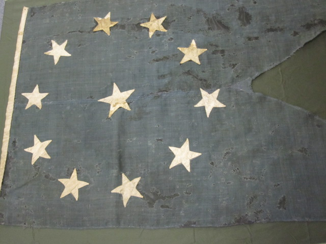 Accession 2011-10-1 Flag, Personal, Admiral Buchanan 35"W x 60"L The flag an Admiral's personal flag was recently processed in a project to catalog backlog items in the Curator Branch collection.This flag belonged to Admiral Franklin Buchanan. He was appointed an Admiral in August 1862 and commanded Confederate forces at Mobile Bay Alabama. The flag was in a very poor condition, fragile and dirty. The flag was sent to a conservator because of its historical significance. This photograph was taken after the conservation work was completed. Collection of Curator Branch, Naval History and Heritage Command.